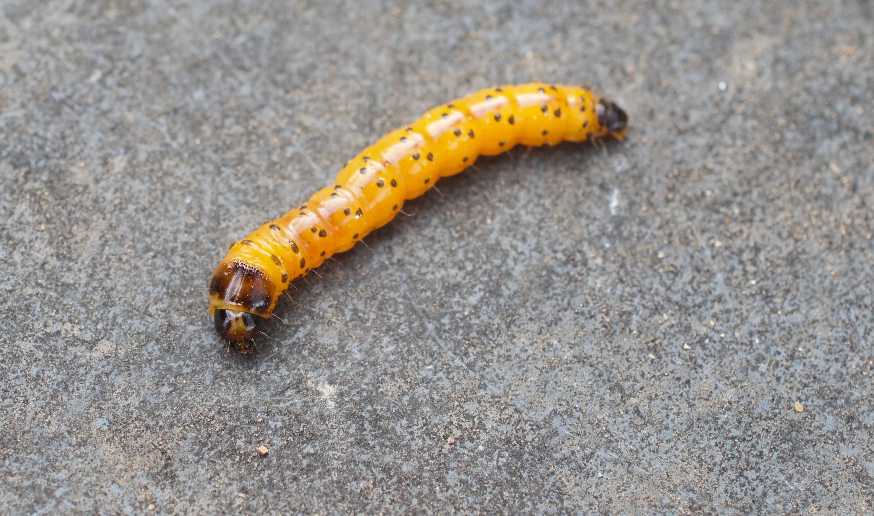 Zeuzera pyrina, leopard moth, wood leopard moth